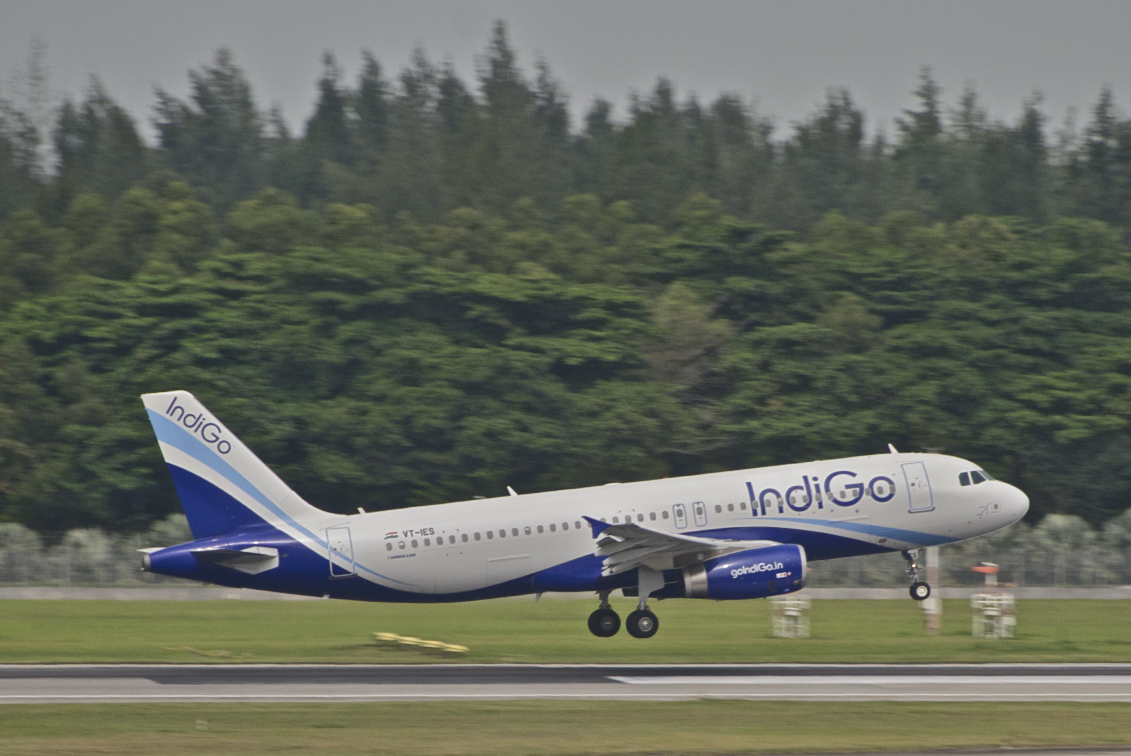 IndiGo Airbus A320-232; VT-IES@SIN;02.08.2012/668ey